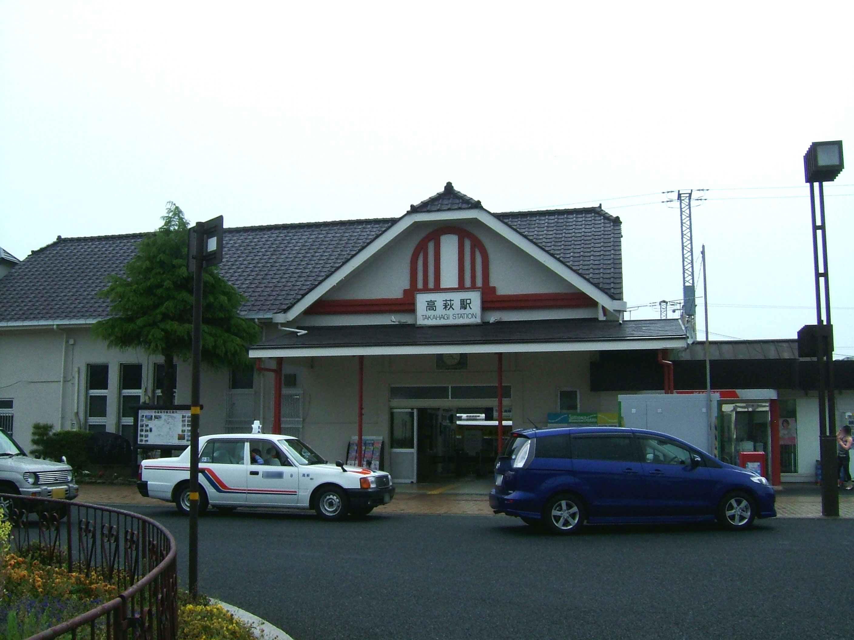 Takahagi Station entrance (East Japan Railway Jōban Line)